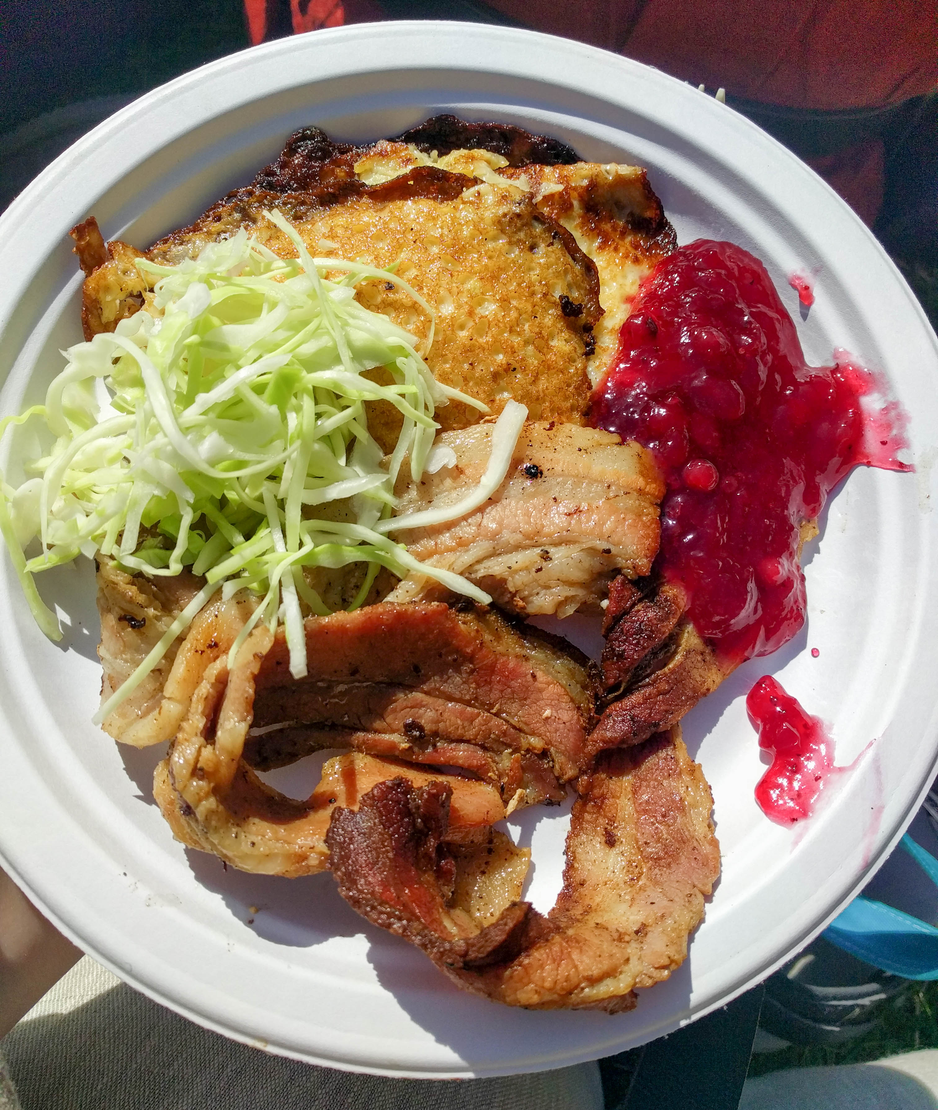 Raggmunk with pork, lingonberry jam and cabbage.